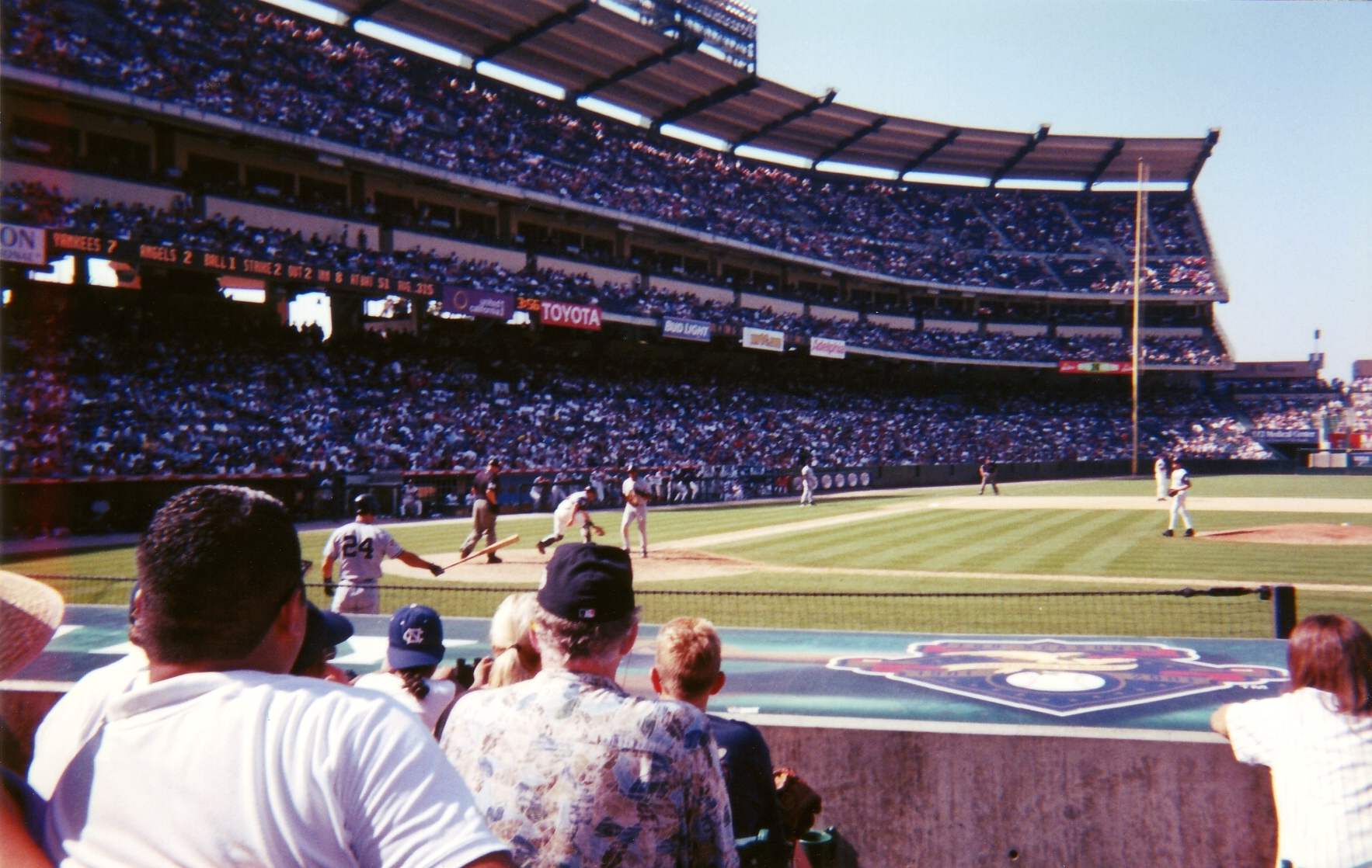 Bernie Williams (second from right of home plate umpire) of the New York Yankees at bat against Anaheim Angels' relief pitcher Lou Pote (far right) at the top of the eight inning at an August 25, 2001 game at Edison International Field of Anaheim. Angel's catcher Jorge Fabregas (right of home plate umpire) plays defense behind the plate while Tino Martinez (#24) of the Yankees warms up in the on-deck circle. Williams led the Yankees on offense that game batting 2/4 with a double, a home run and two RBIs. This photograph was taken using an unspecified disposal 35mm camera and scanned using a Canon CanoScan LiDE 60 scanner